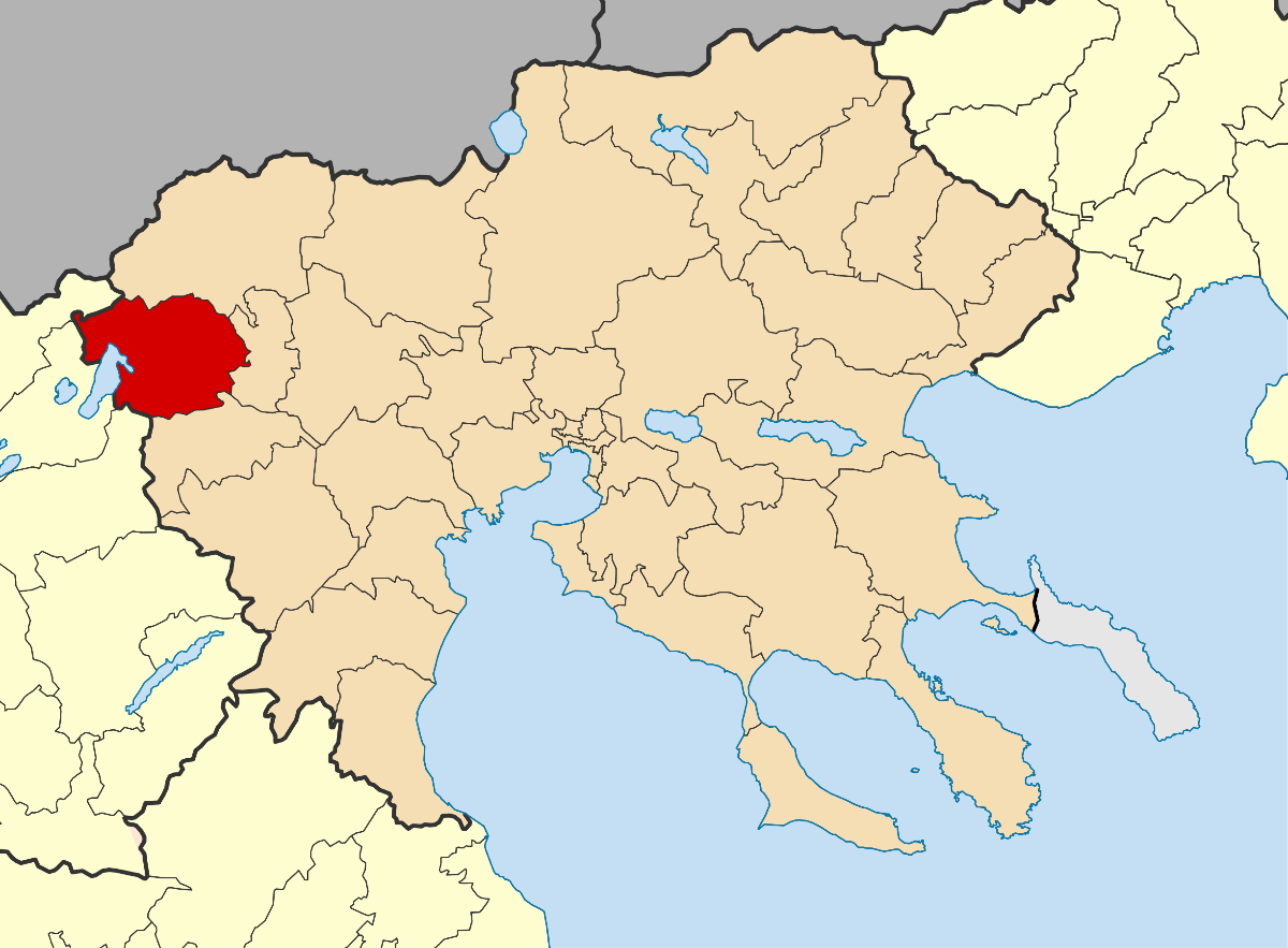 Locator map for Edessa municipality in Greek region Central Macedonia (2011)